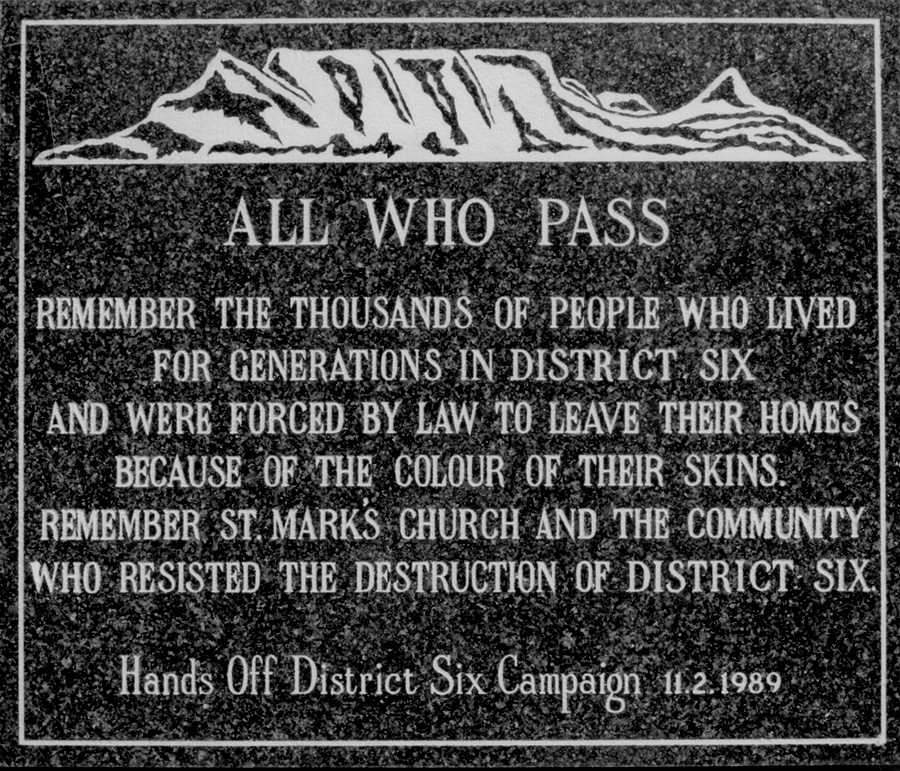 District Six Memory Plaque at the Moravian Church in District Six, Cape Town, South Africa. It commemorates the victims of apartheid-era forced removals through the racially divisive Group Areas Act. Picture by Henry Trotter, 2000.